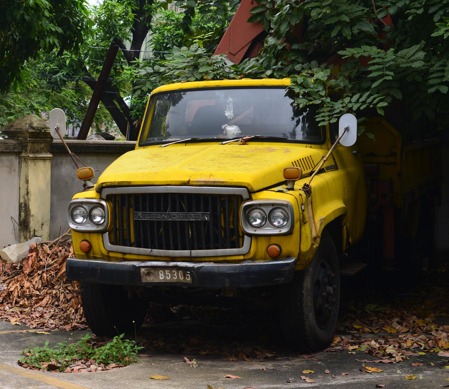 Old Nissan Diesel 780 bonnet truck in Bangkok, Thailand